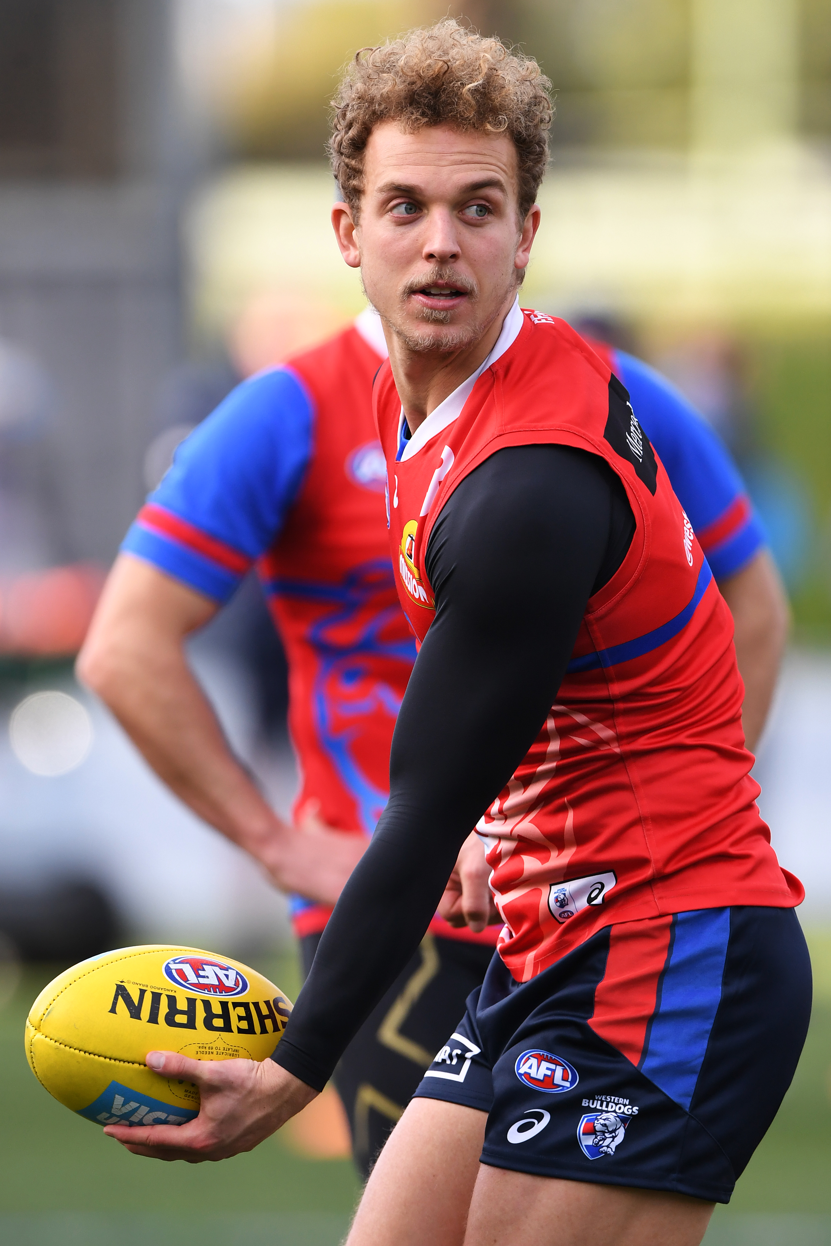 Mitch Wallis of the Western Bulldogs during Western Bulldogs training on 7 August 2018 at Whitten Oval in Melbourne, Victoria.